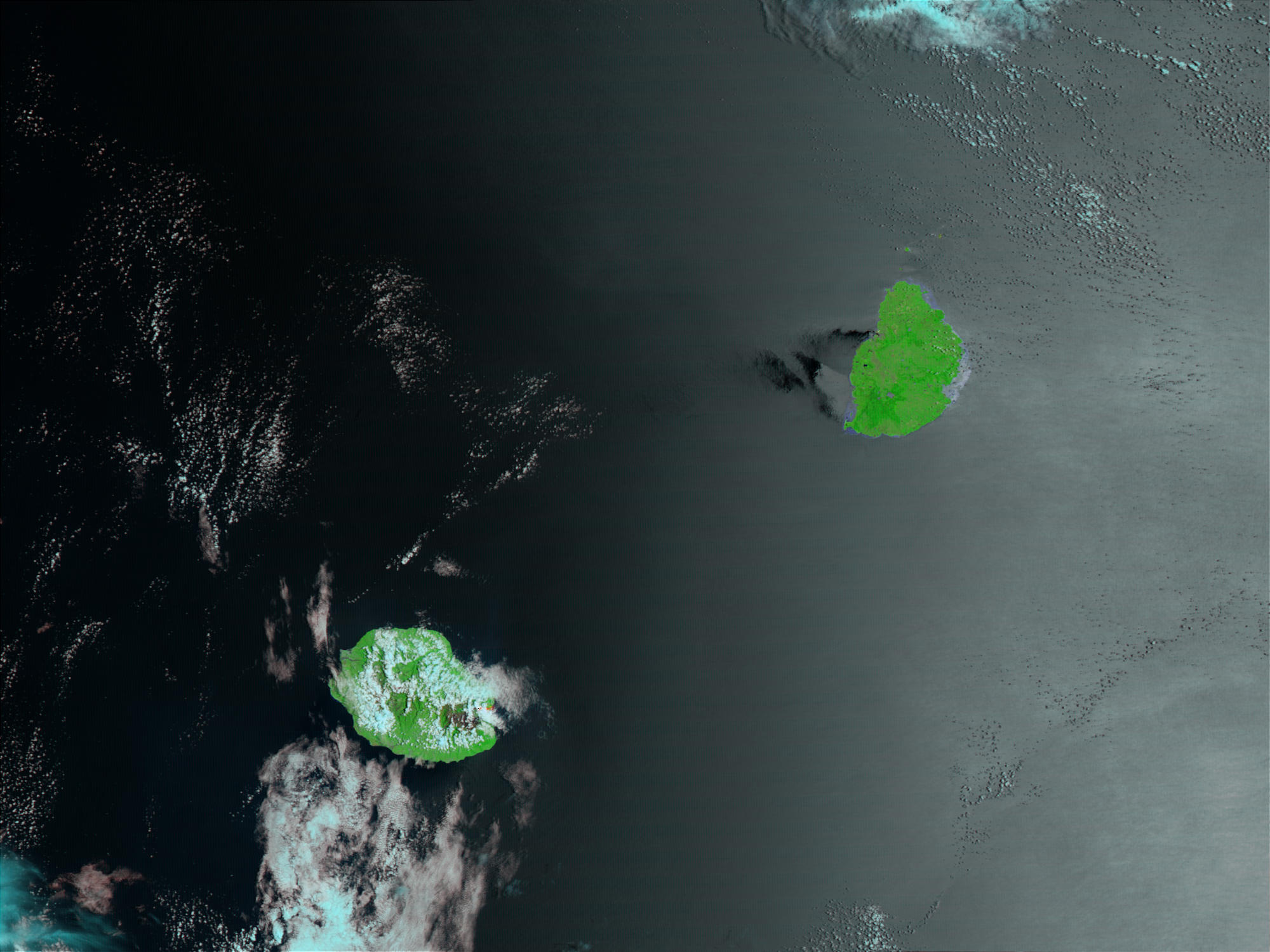 Description: On January 16, 2002, lava that had begun flowing on January 5 from the Piton de la Fournaise volcano on the French island of Réunion abruptly decreased, marking the end of the volcano’s most recent eruption. This false color MODIS images of Réunion, located off the southeastern coast of Madagascar in the Indian Ocean was captured on the last day of the eruption (January 16). See also